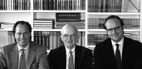 Dr. Manfred teNeues (middle), founder of the nowadays known publishing company and his sons, Hendrik teNeues (left) and Sebastian teNeues (right), who are meanwhile running the company.